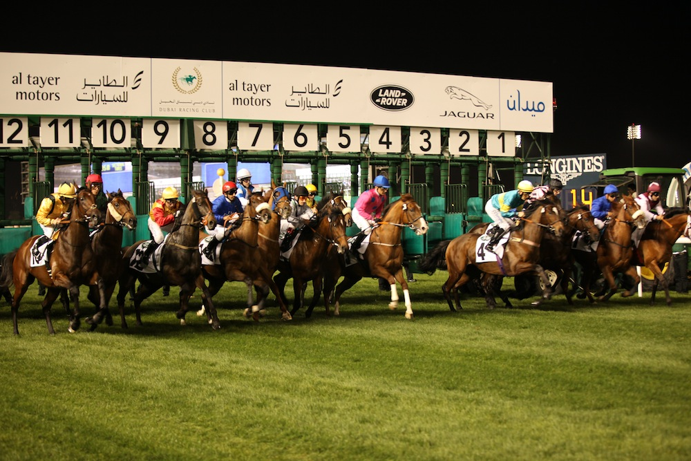 Al Tayer Motors is a regular sponsor of horseracing and also supports a domestic “Racing at Meydan” card in December as well as the 3200m stayers’ race, the Group 3 $1million Dubai Gold Cup on Dubai World Cup day, March 30 2013.